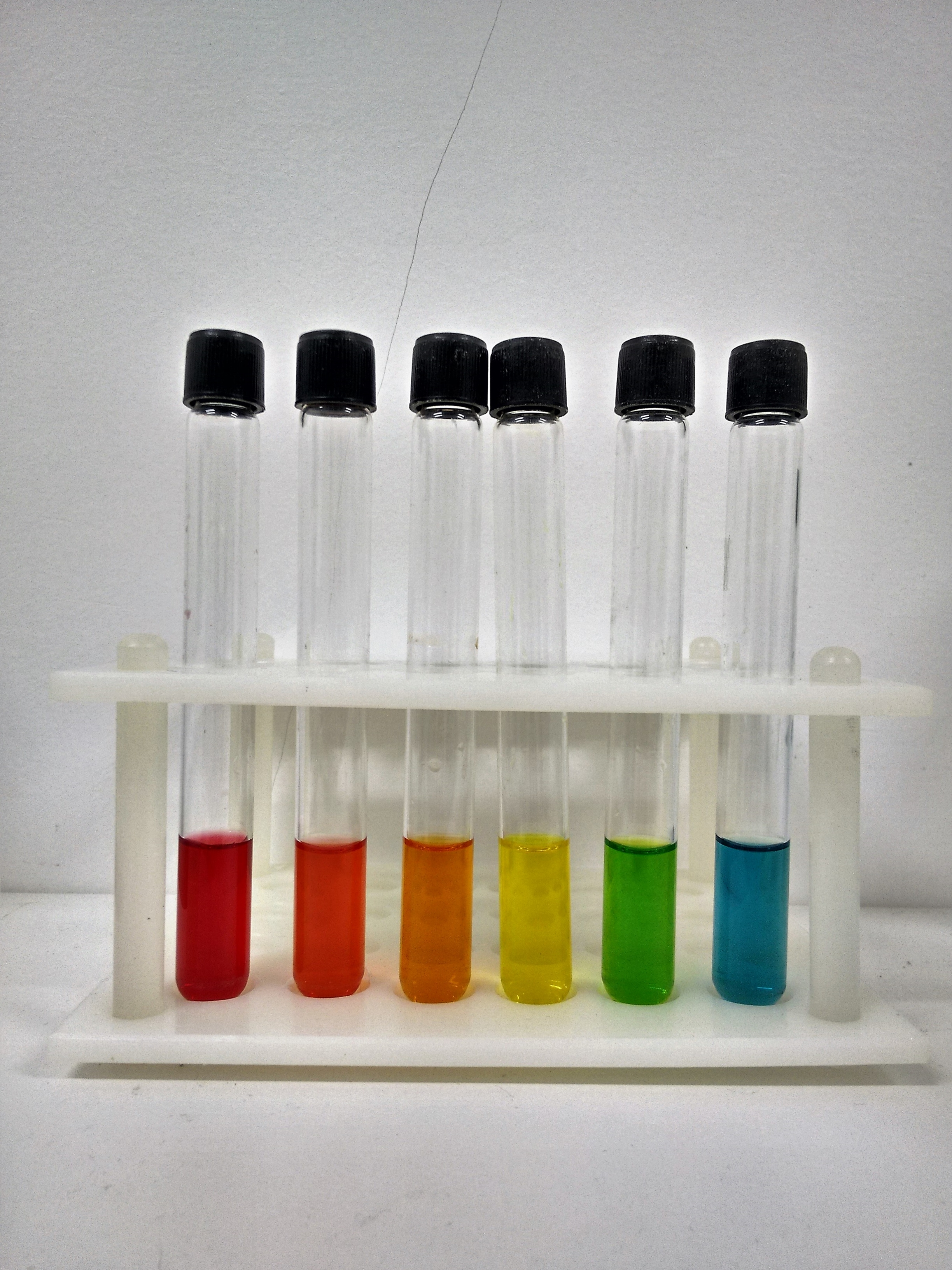 Test tubes with substances of different colors (water and dyes) forming a gradient of six colors.